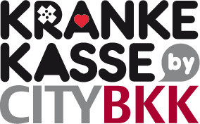 Brand of CITY BKK, Germany